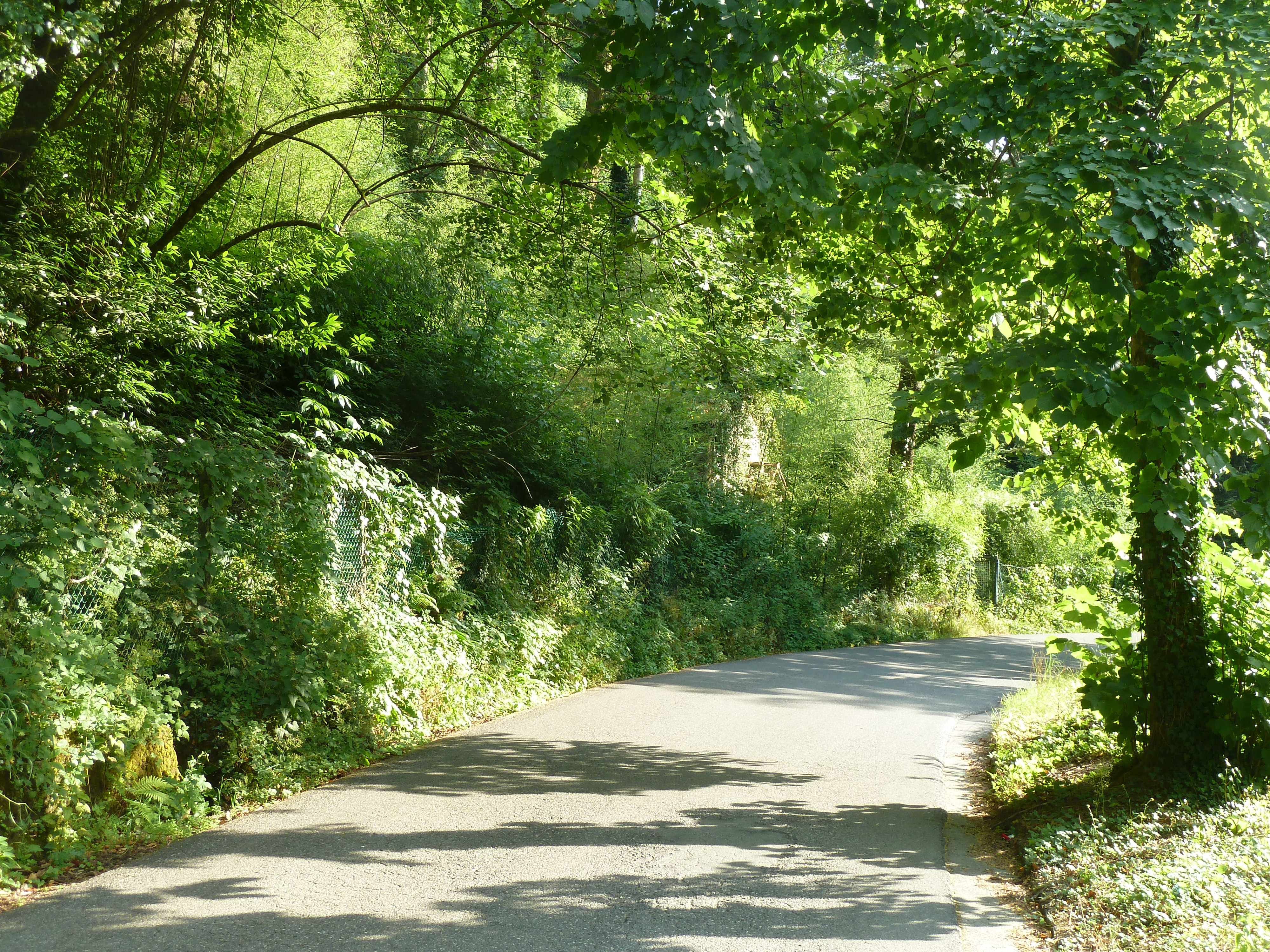 Bagni di Lucca, Italy June 2015 Nature